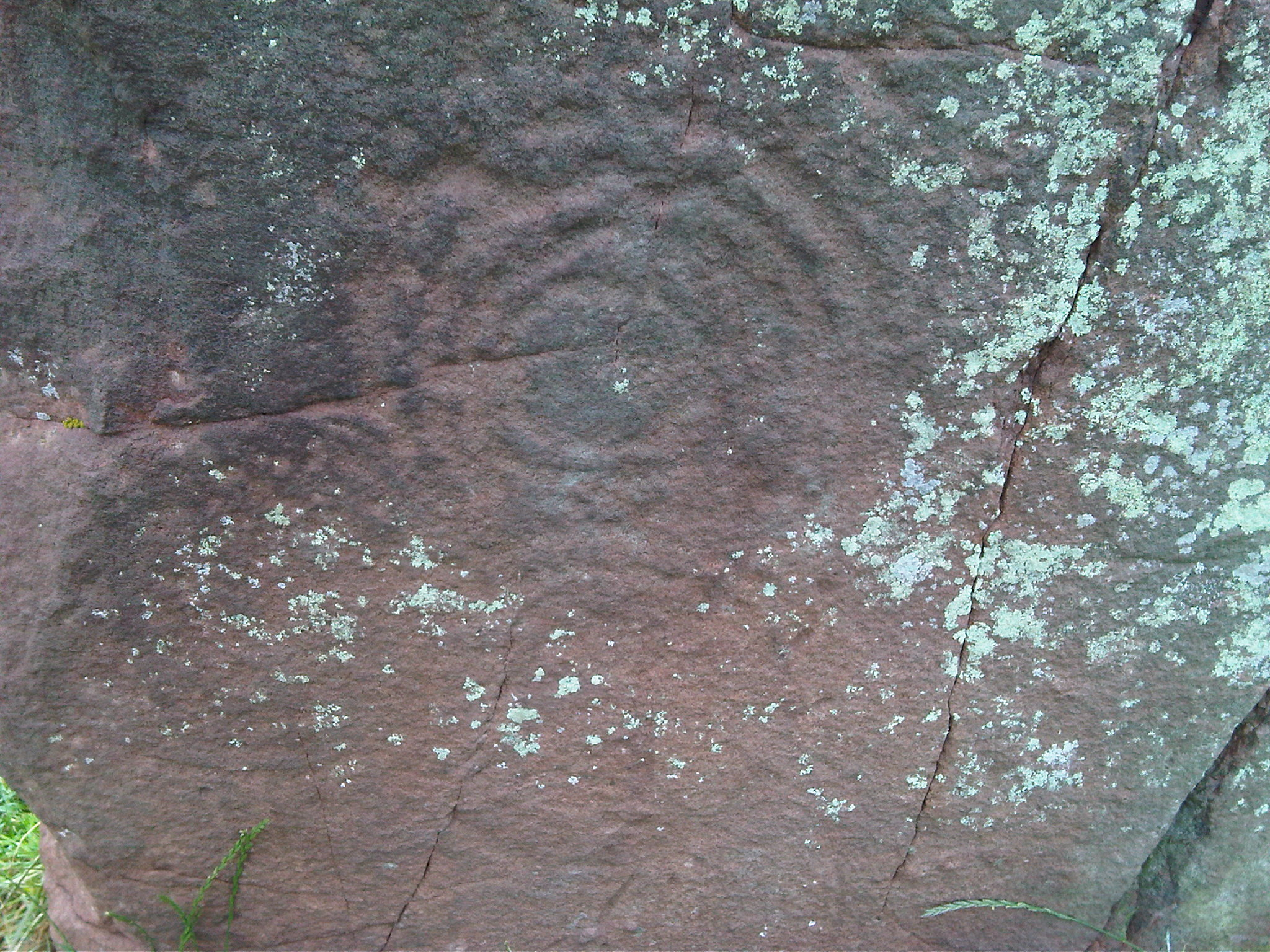 Image of one of three "cup and ring" markings on the Long Meg Bronze Age standing stone, northern England